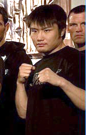 Takanori Gomi at the official weigh-in of Pride 33, Thomas & Mack Center on February 23, 2007.